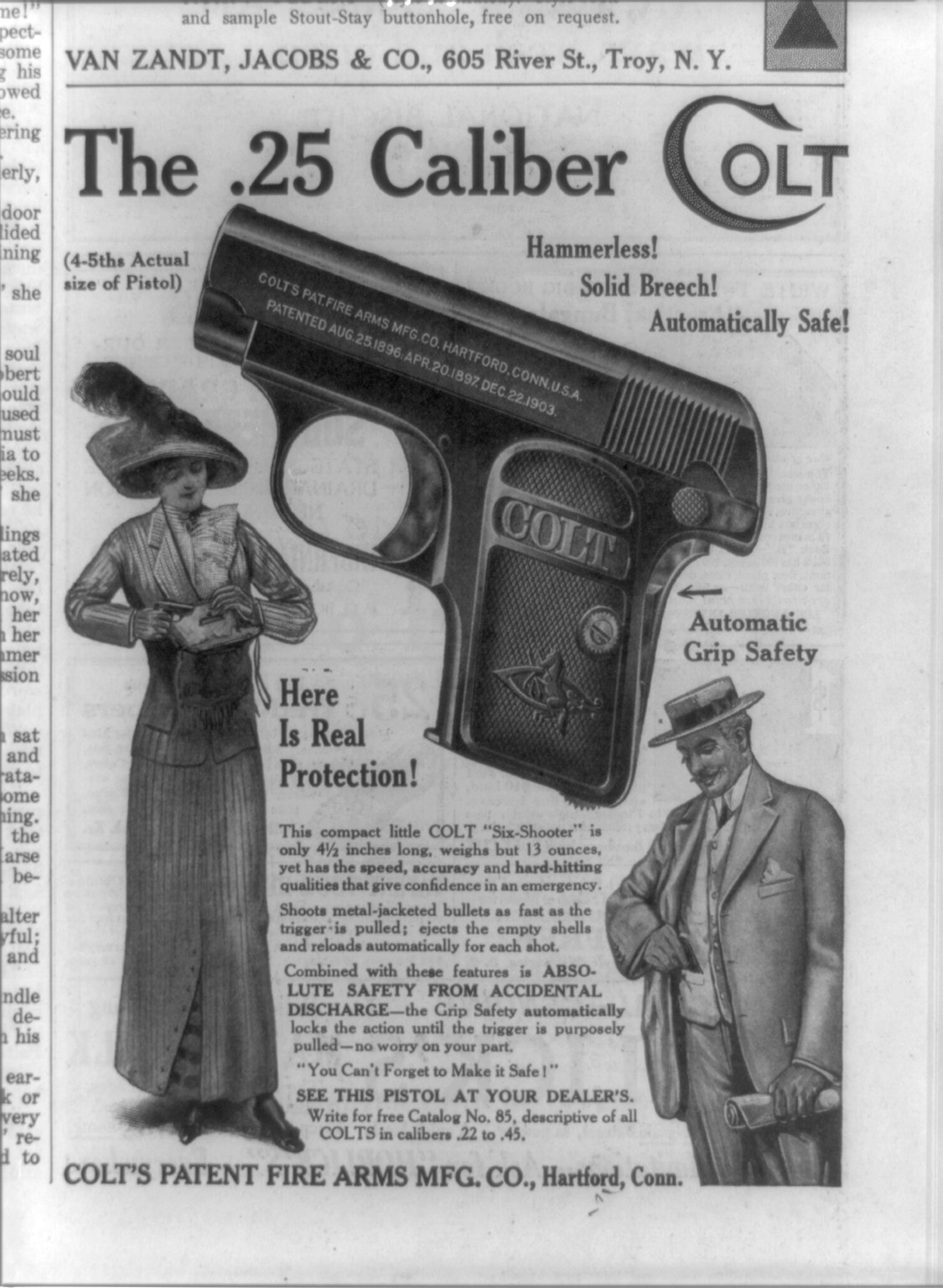 Title: The .25 caliber Colt Abstract/medium: 1 photomechanical print : halftone.